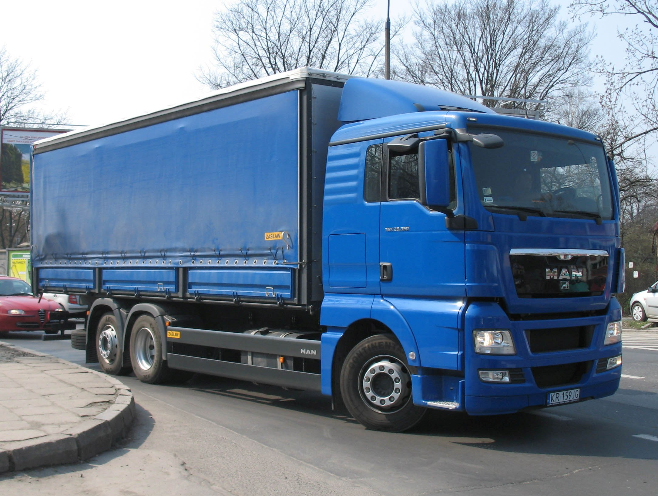 MAN TGX 26.360 truck in Kraków, Poland. Built in MAN Trucks company in Niepołomice near Kraków, Poland.